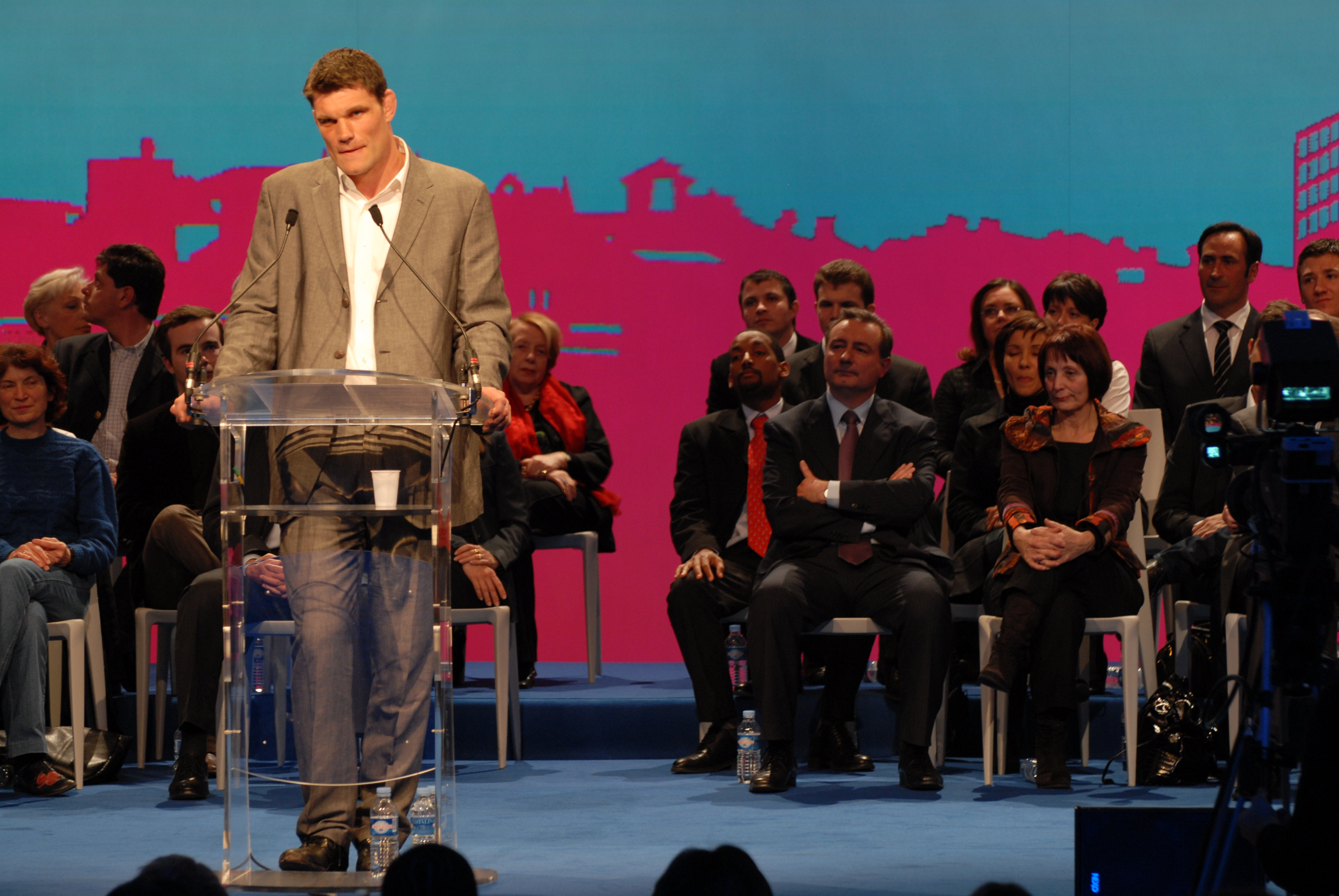 French rugby union player Fabien Pelous supporting Jean-Luc Moudenc's candidacy for the French town elections in Toulouse, 2008.